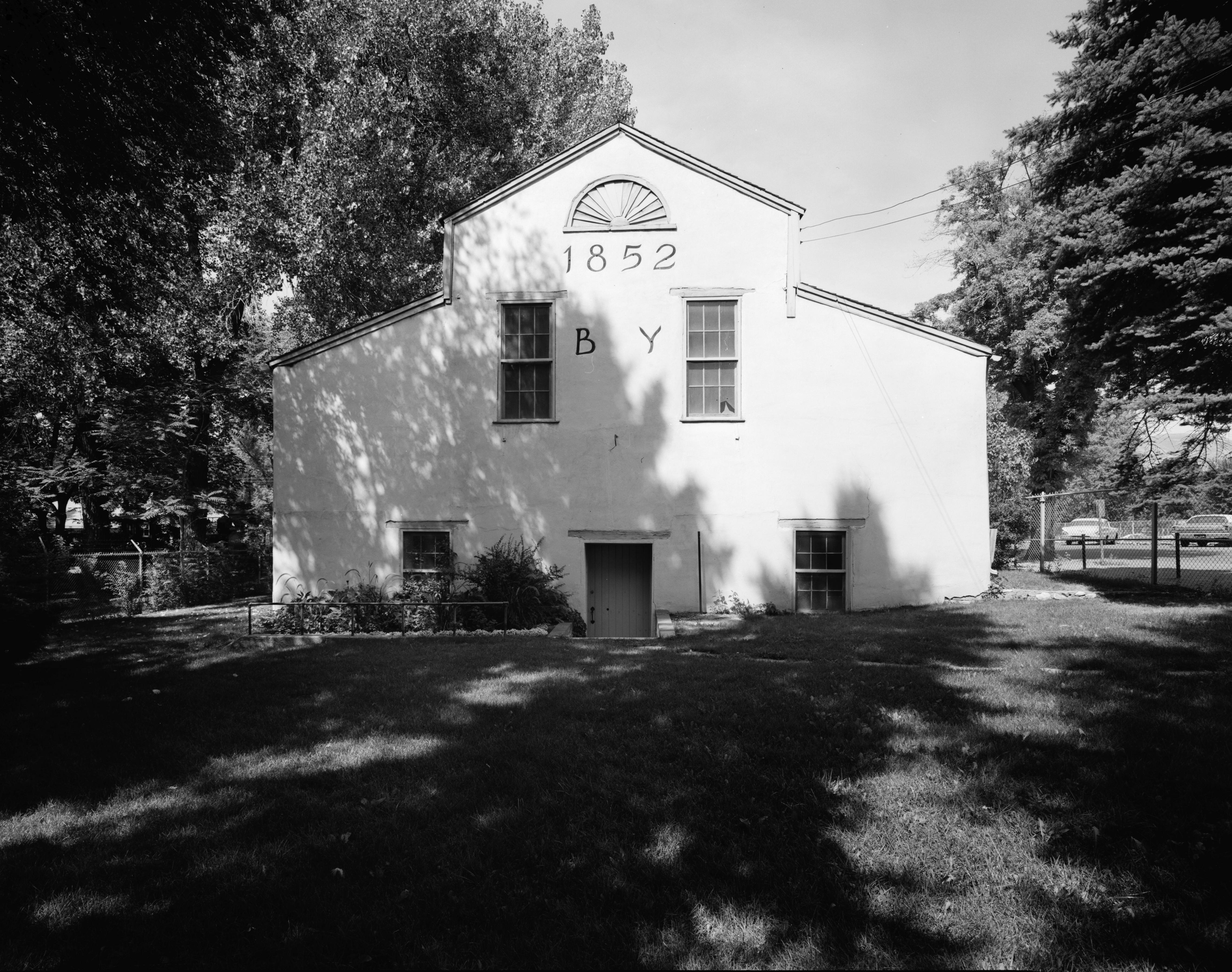 Front of the Isaac Chase Mill, located in Liberty Park off 6th East in Salt Lake City, Utah, United States. Built in 1852, it is listed on the National Register of Historic Places.